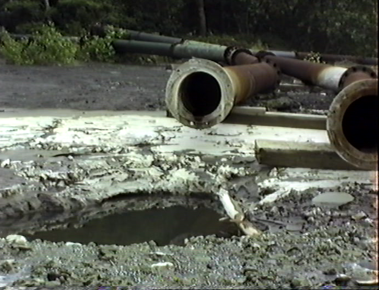 Waste pipes channel liquid chemical waste into the former brown coal mine "Grube Hermine" in Bitterfeld, then German Democratic Republic, in 1988